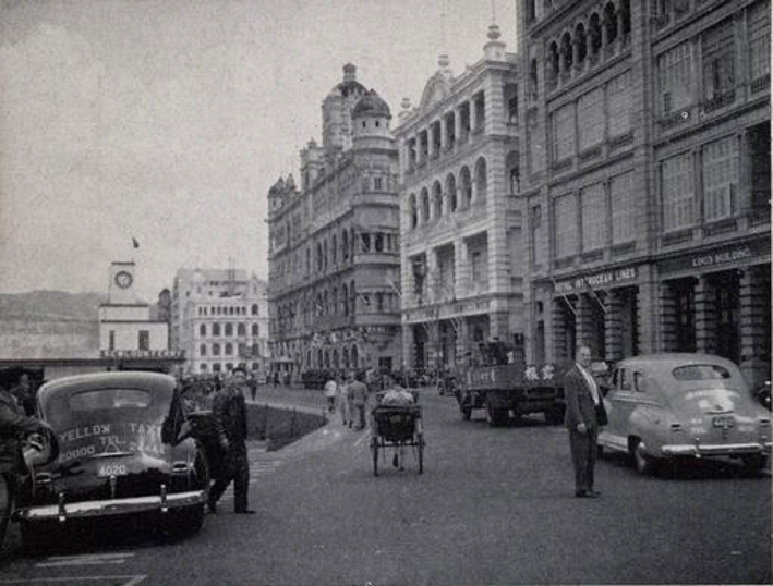 View of the Hong Kong waterfront, in 1950. The Queen's Building (1899-1961) is visible in the center.